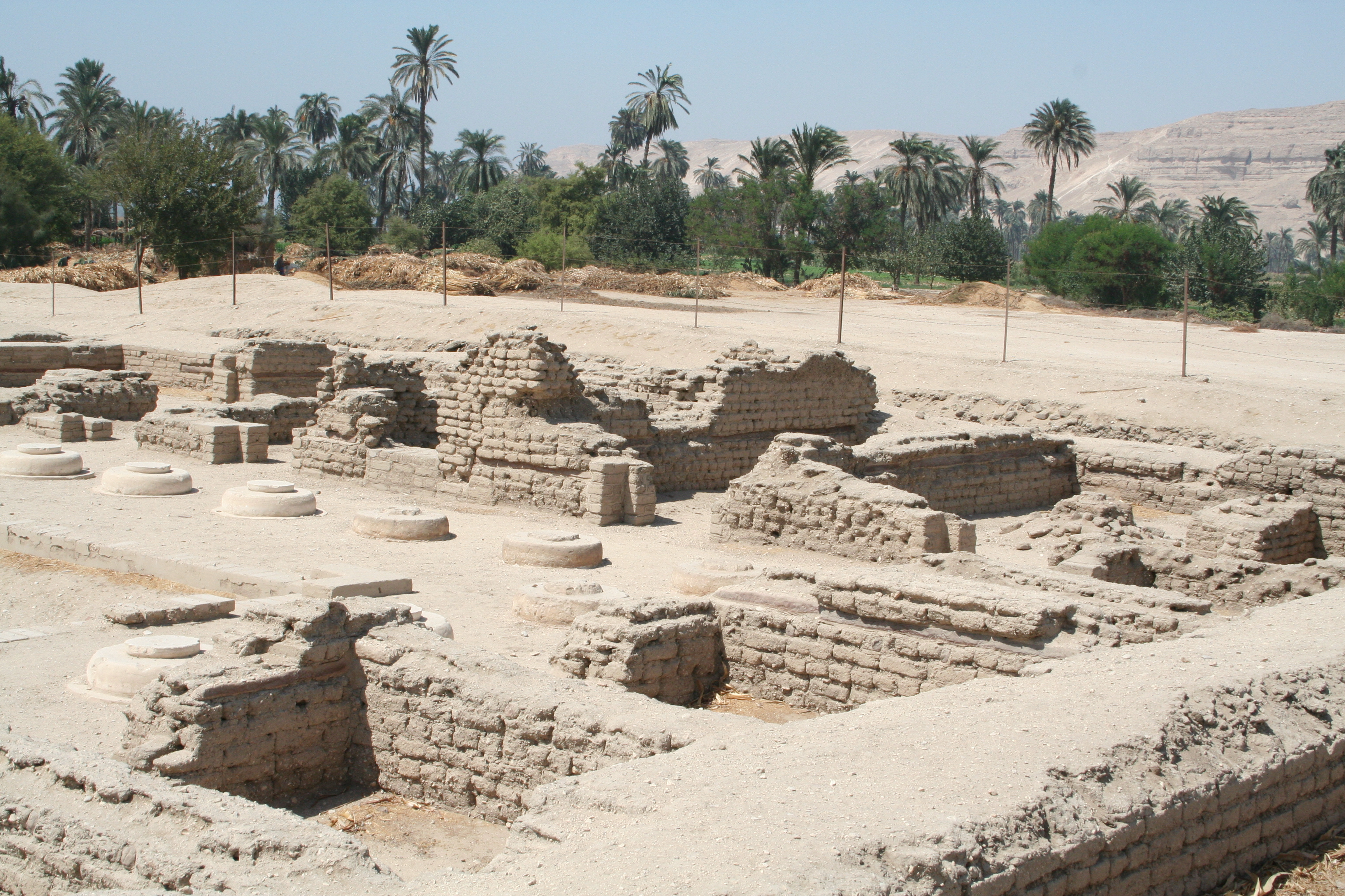 North Palace at Tell el-Amarna